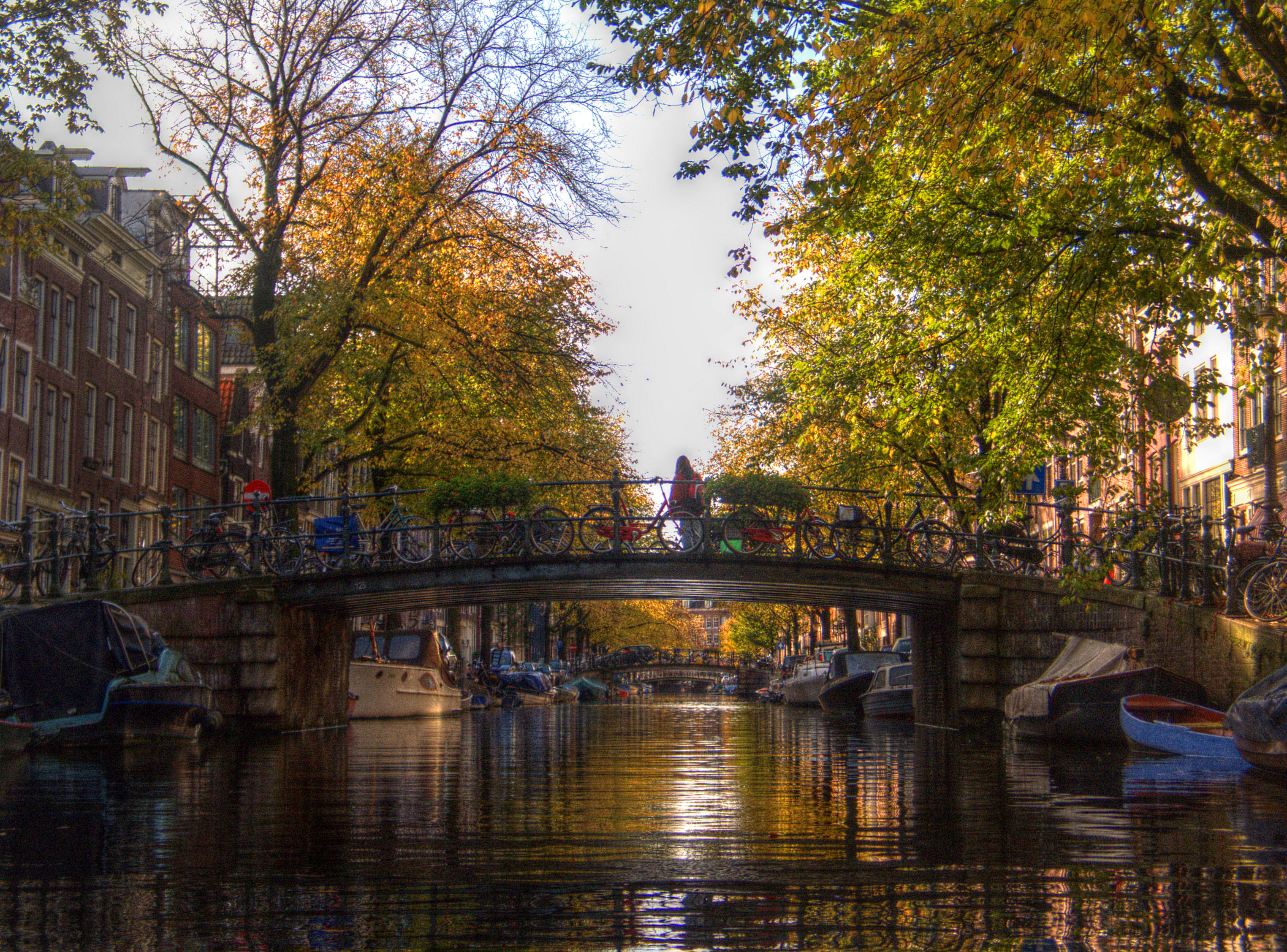 The Hilletjesbrug (bridge 125) over the Egelantiersgracht in the Jordaan area of Amsterdam. In the background bridge 126. November 2012